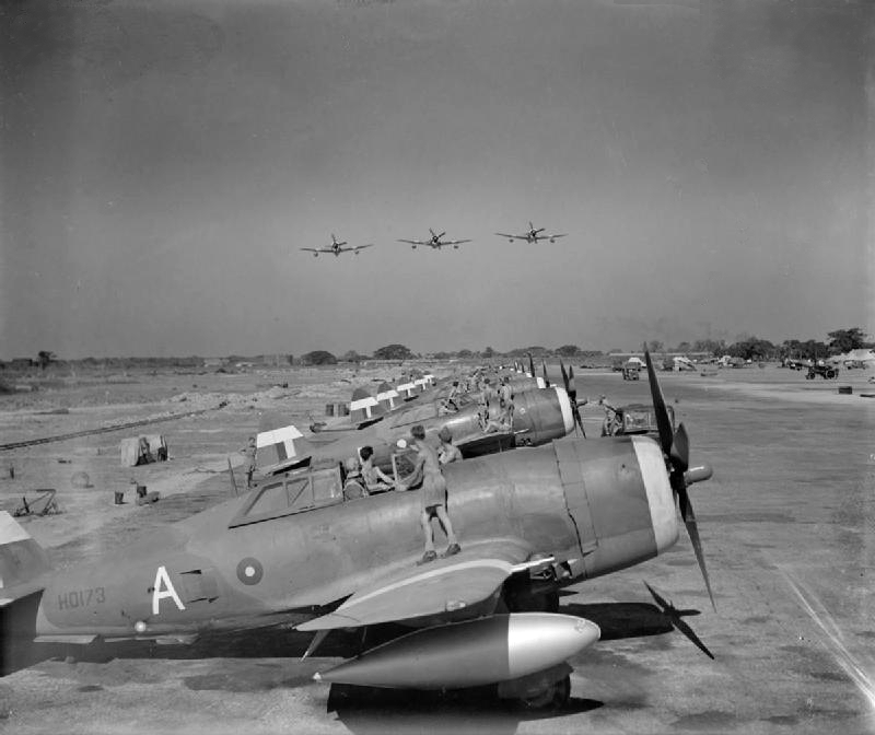 Royal Air Force Thunderbolt Mark Is (P-47D-22-RE USAAF s/n 42-26228, RAF HD173 "A" nearest) of No. 135 Squadron RAF, lined up at Chittagong, India, while being overflown by three other Thunderbolts. HD173 was stricken on 21 June 1945.